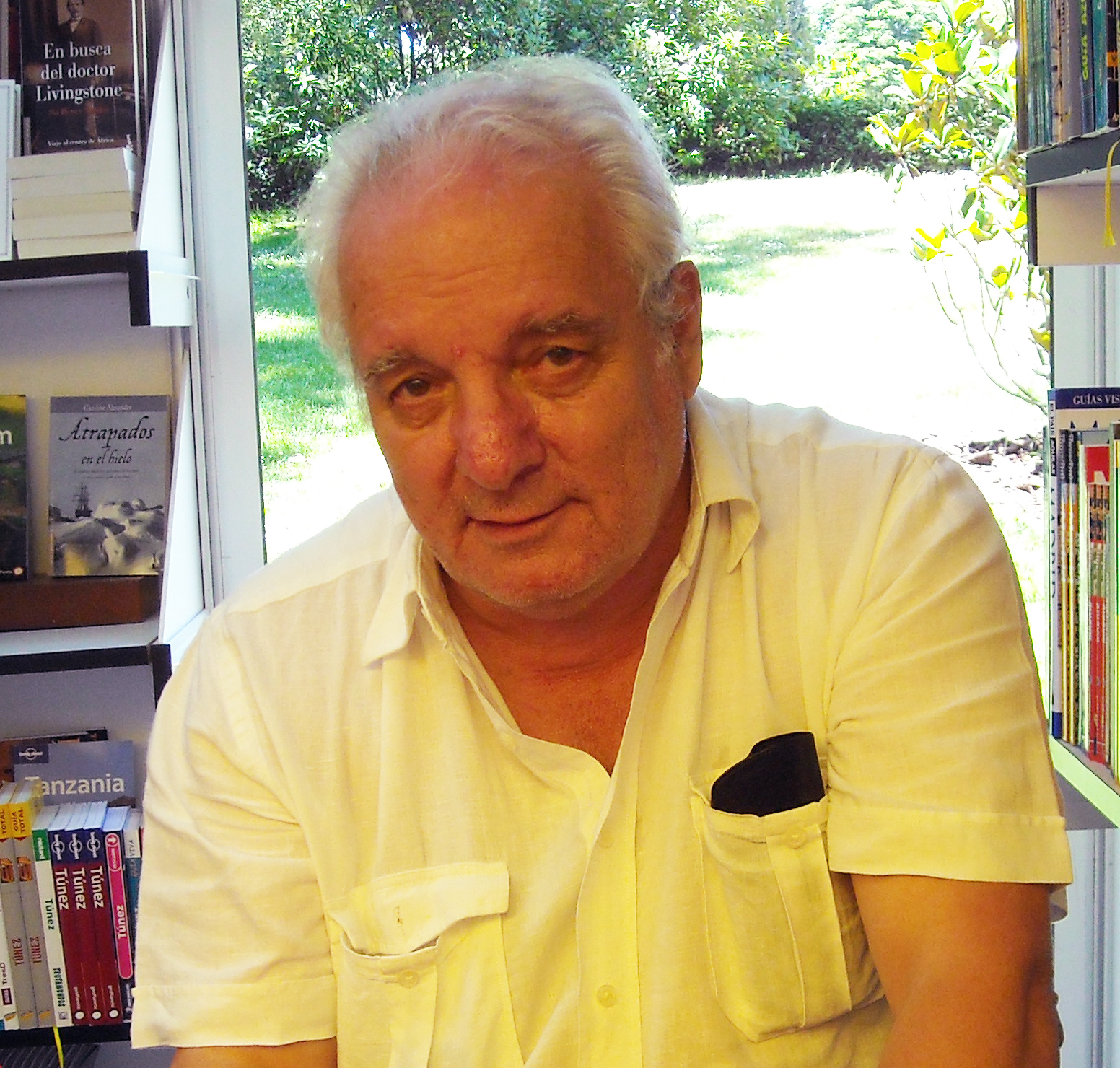 The Spanish writer Javier Reverte at the Madrid Book Fair 2009